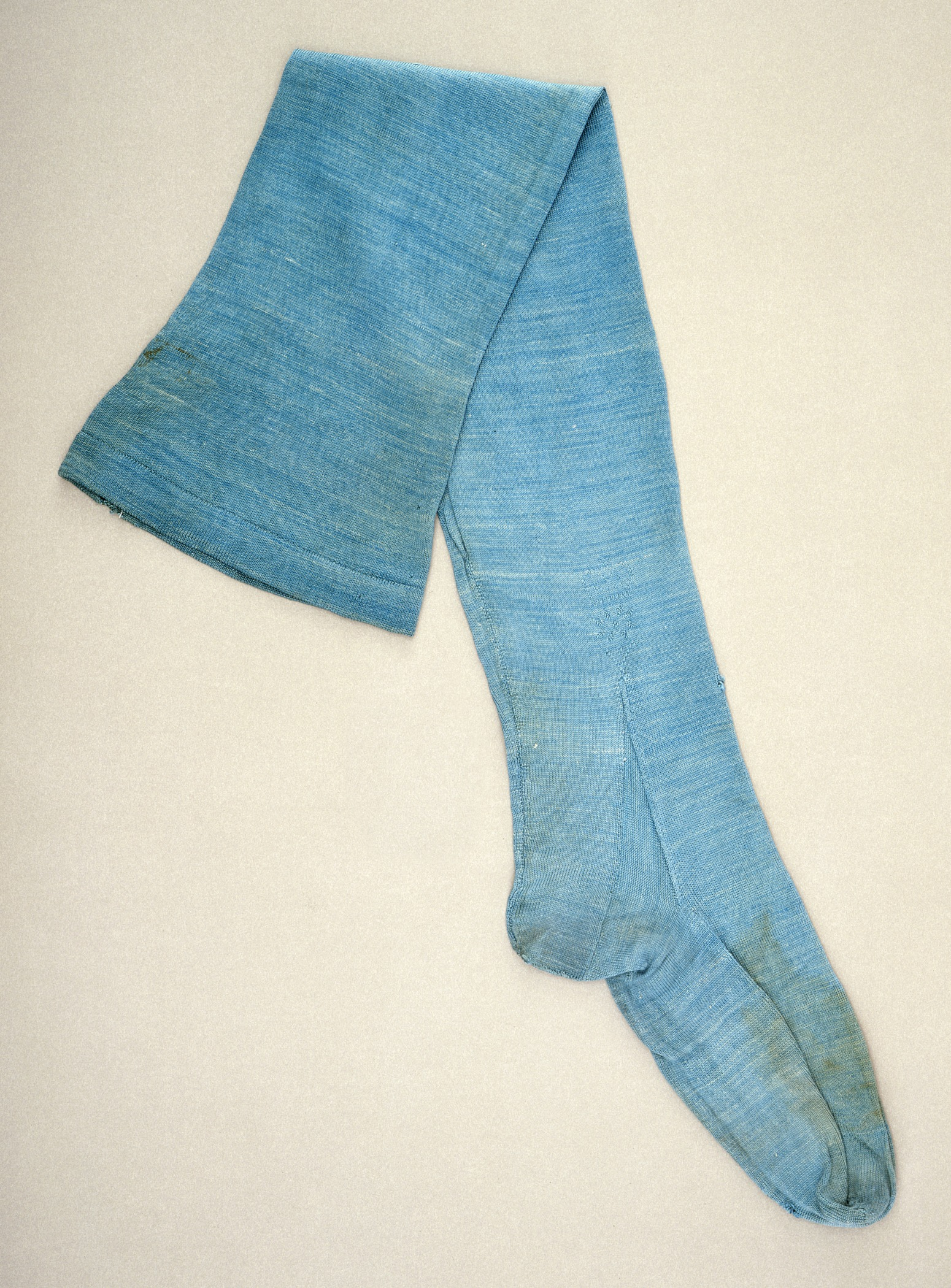 England, circa 1750 Costumes; Accessories Silk, knitted Length: 24 in. (60.96 cm) Costume Council Fund (M.82.8.3) Costume and Textiles